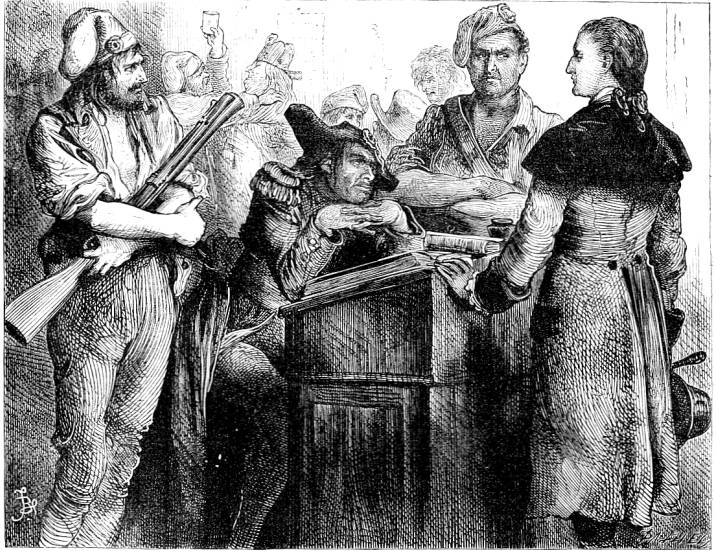 A Tale of Two Cities, Charles Darnay being arrested in Paris, by Fred Barnard.